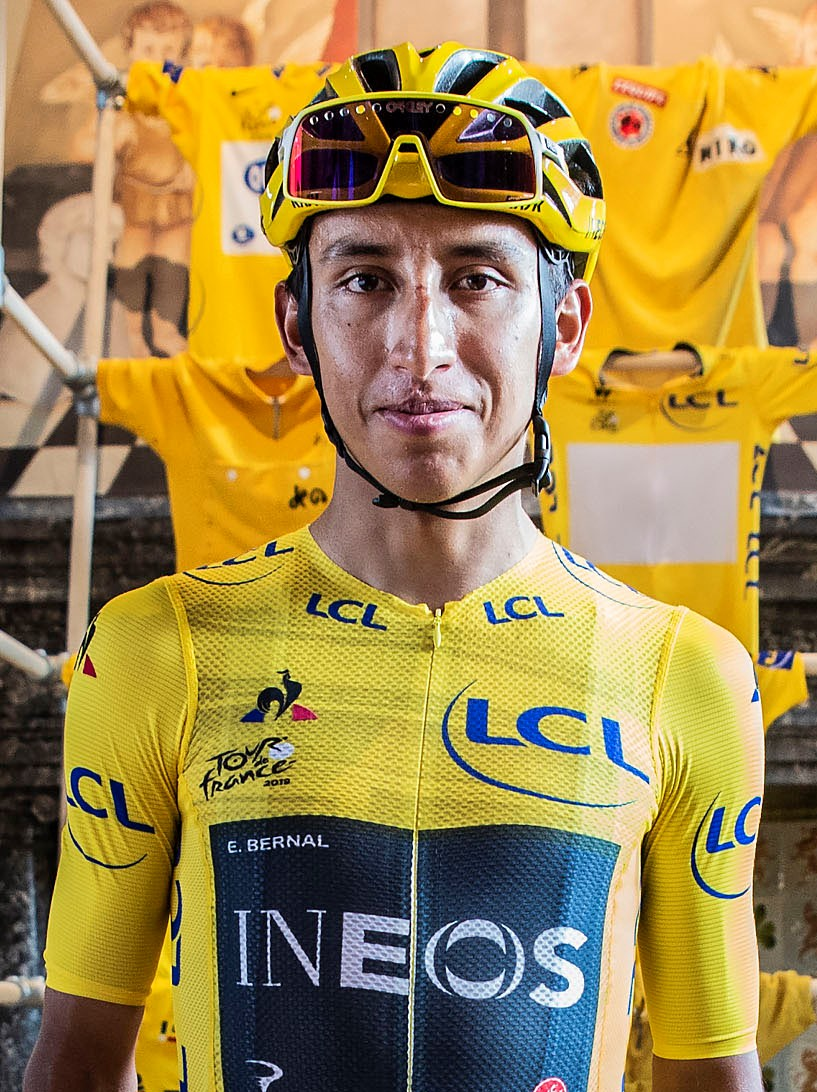 Egan Bernal, winner of the Tour de France 2019, poses with his yellow jersey in KOERS. Museum of Cycle Racing in Roeselare, Belgium, with the yellow jersey of Eddy Merckx and others yellow yerseys in the exhibition.